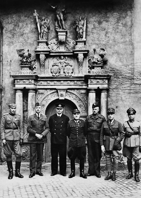 Allied Prisoners of War at Oflag Ivc, Colditz Senior officers of the Oflag IVC in front of Colditz Castle chapel. From left to right: Unidentified Yugoslavian Army Captain; Colonel de Smet, Belgian Army; Admiral Józef Unrug, Polish Navy; General Tadeusz Piskor, Polish Army; Colonel David Stayner, the Dorsetshire Regiment, British Army; General Le Bleu, French Army; Major E. Engles, Dutch Army.